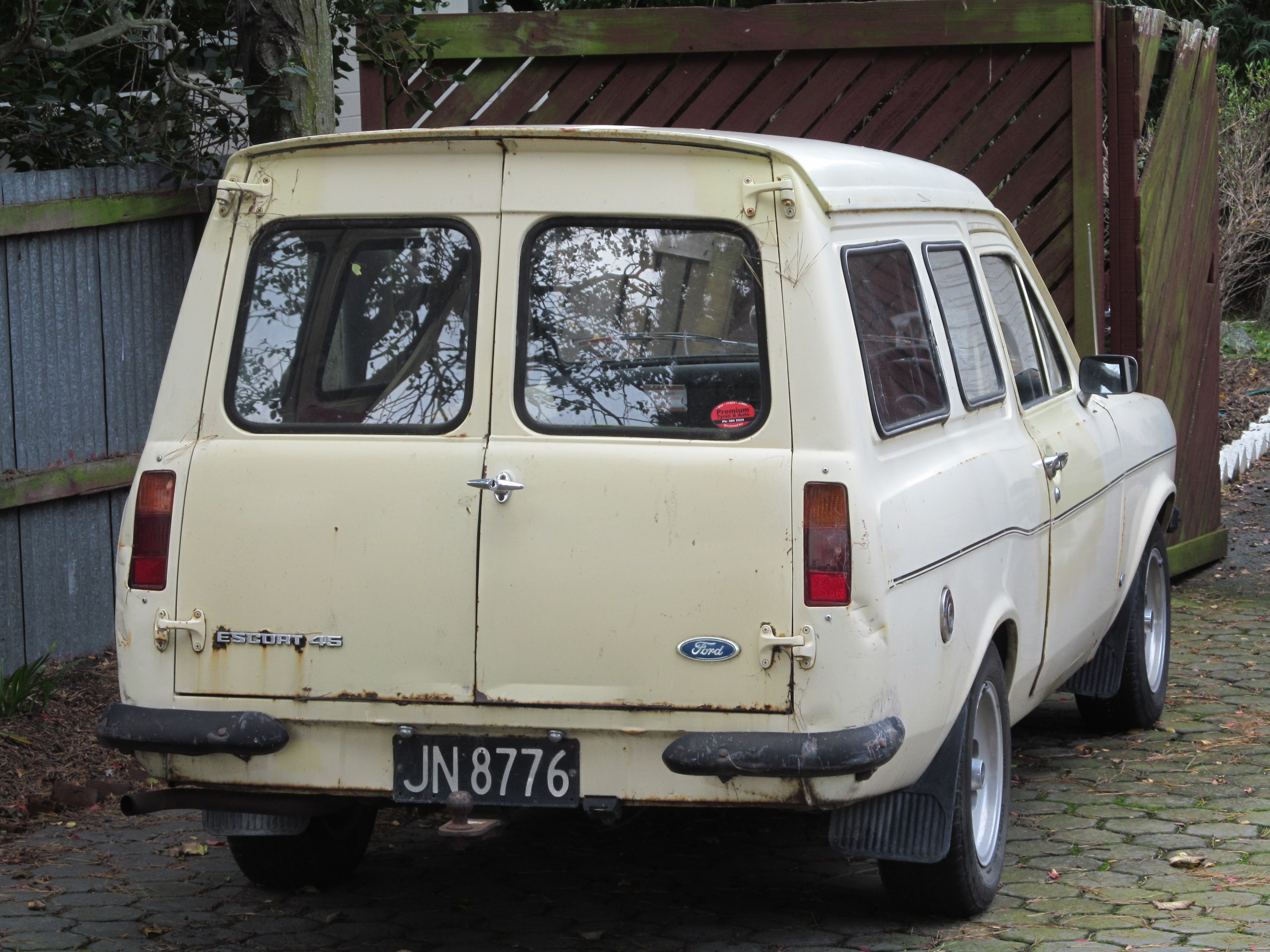 Hopefully this one is going to get some work done; that rust looks a bit menacing. Not an awful lot of these vans left as most were worked to death.